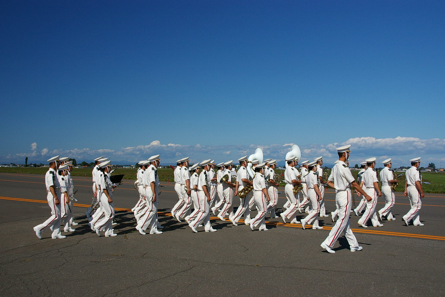 JGSDF band summer uniform.